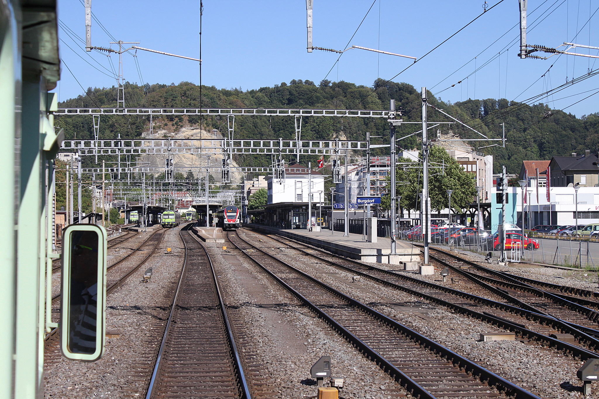 EXT 31161 from Brig to Burgdorf arriving at Burgdorf railway station.